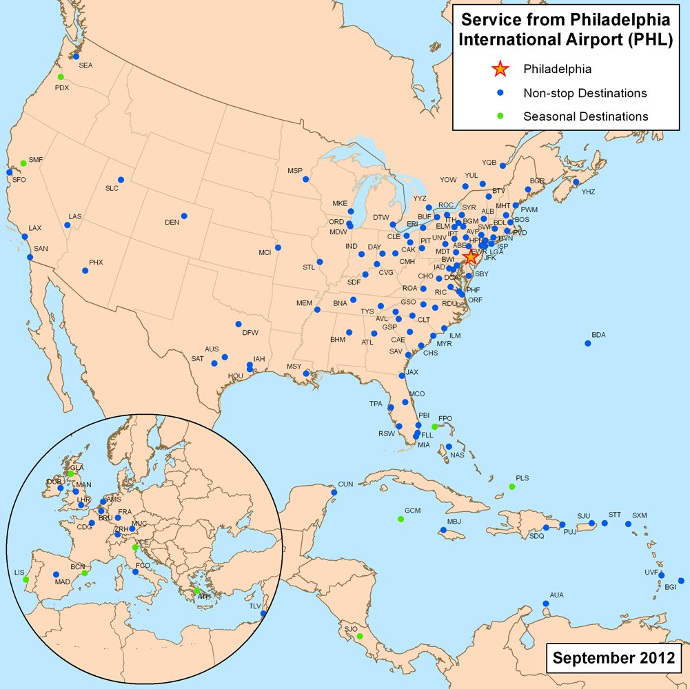 This is a route map for Philadelphia International Airport as of April 2010. Map is an Azimuthal equidistant projection centered on the airport so straight lines from Philadelphia are along great circle routes. European inset does not use the same projection.